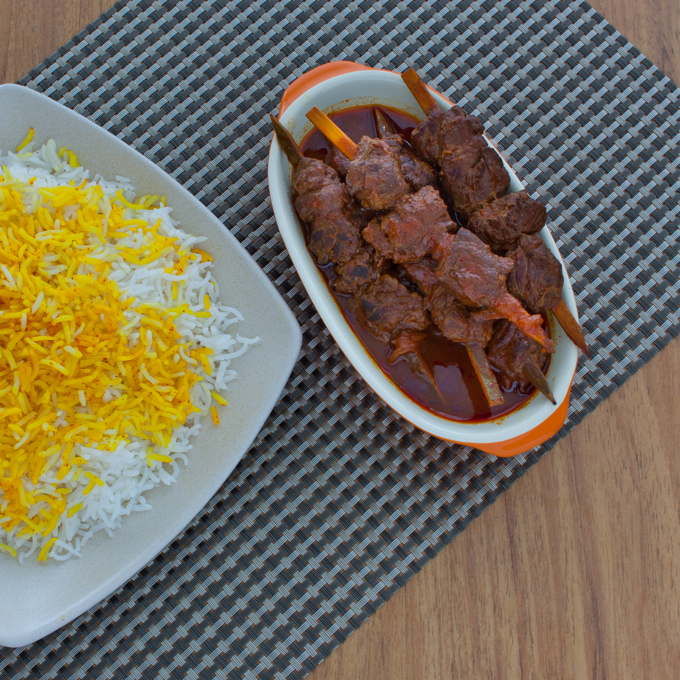 Hosseini kabab, from Isfahan